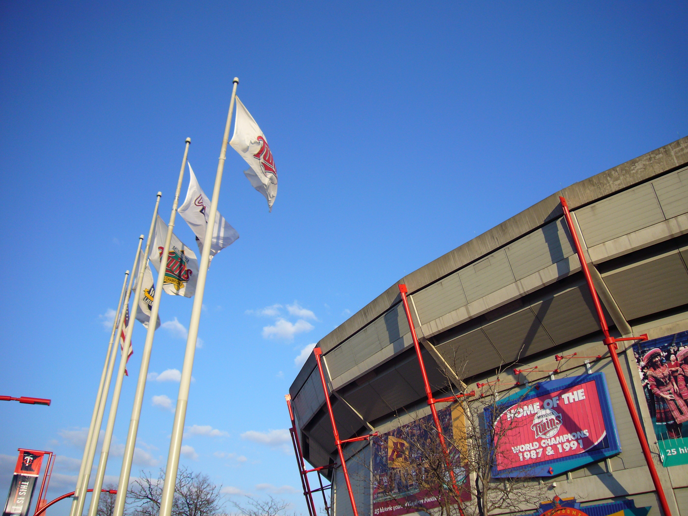 Created by user and released into public domain. Category:Images of Minneapolis, Minnesota